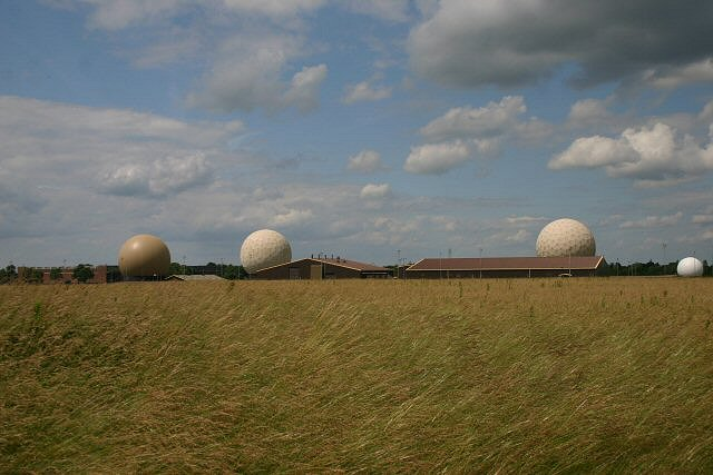 Radomes at RAF Feltwell Viewed from the perimeter fence next to Feltwell Golf Club.